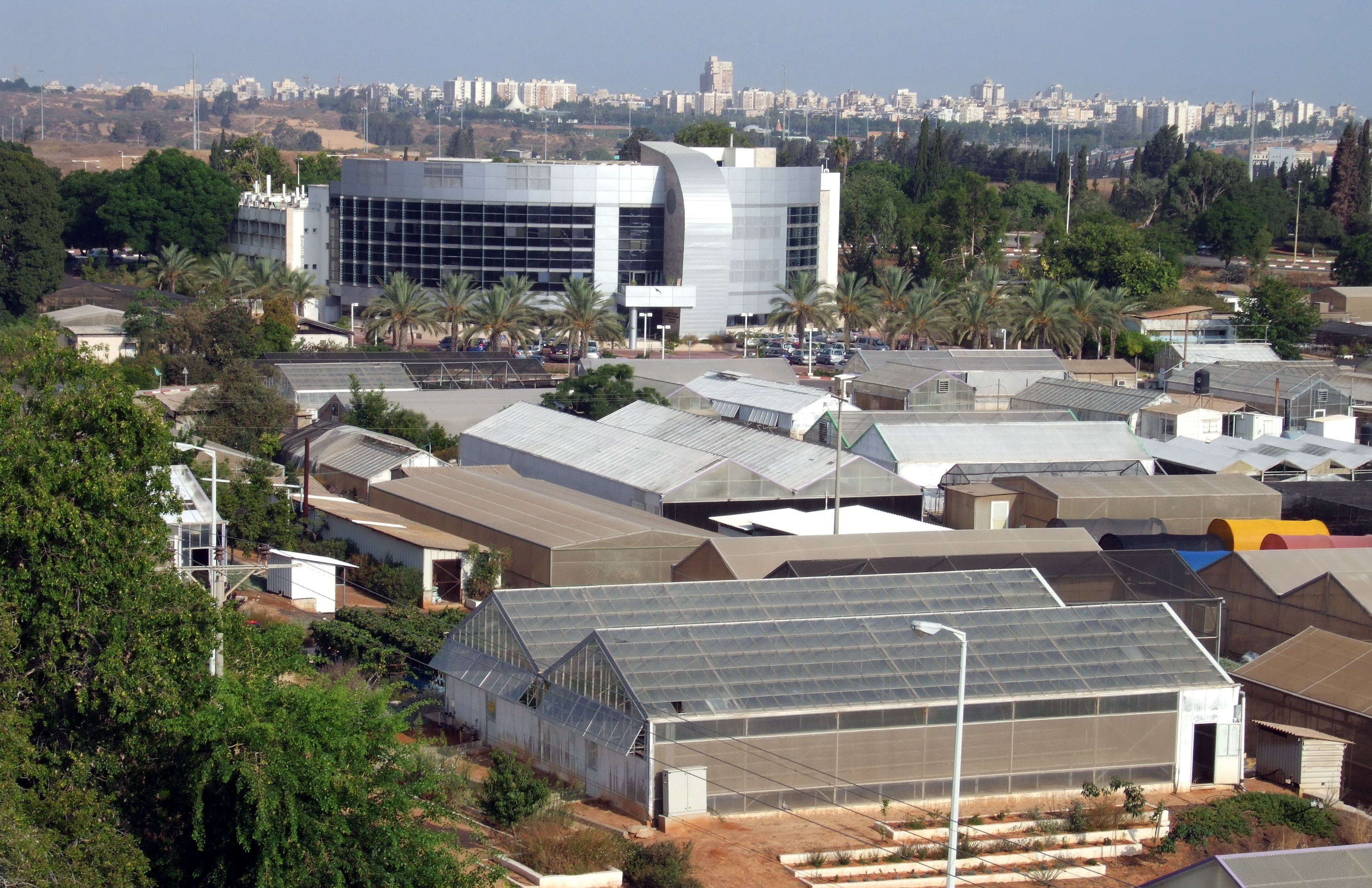 Volcani campus from the air